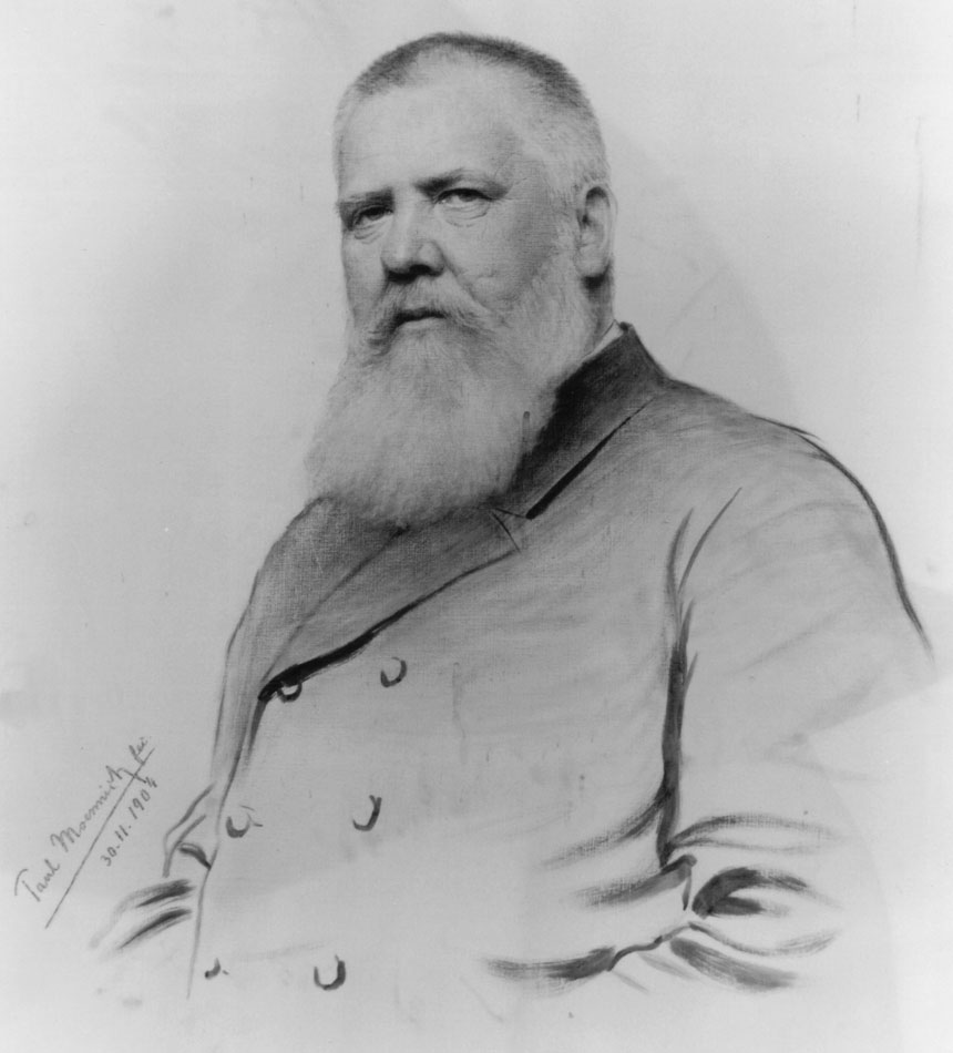 Prof. Fedor Schuchardt (1848-1913), German psychiatrist